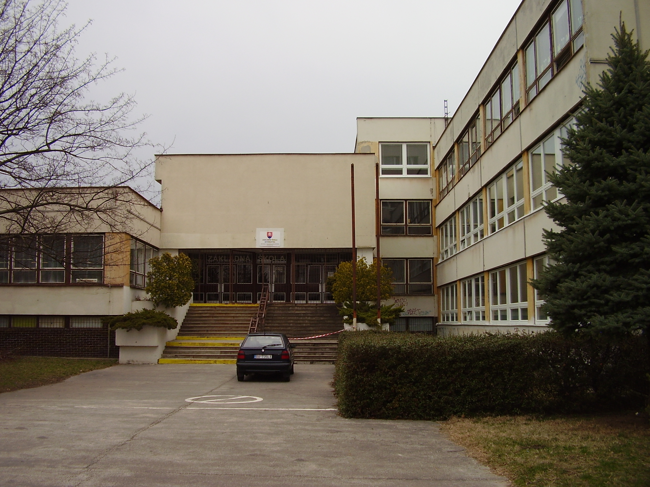 Elementary school, Vlastenecké námestie, Petržalka, Bratislava, Slovakia